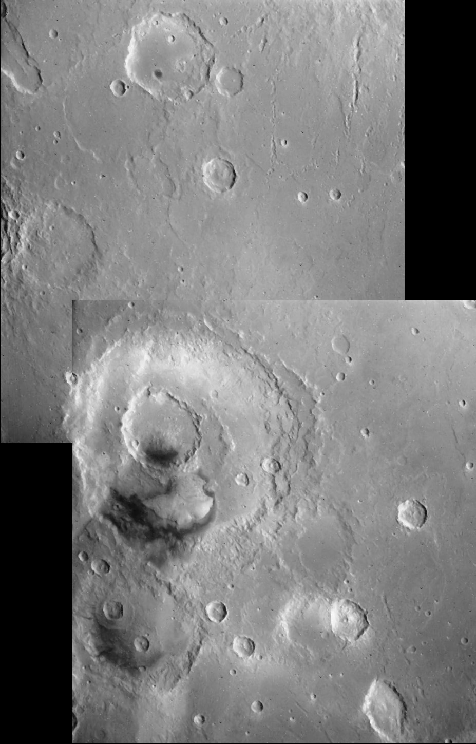 Becquerel crater on Mars. Mosaic of two Viking 1 images from camera A (829A35, 829A37). Red filter was used for these images. Resolution is about 237 m/pixel. North is up. Statistics below are for the bottom image: Emission Angle: 24.4 Incidence Angle: 67.2 Latitude: 21.0 Longitude: 237.3 Phase Angle: 50.9